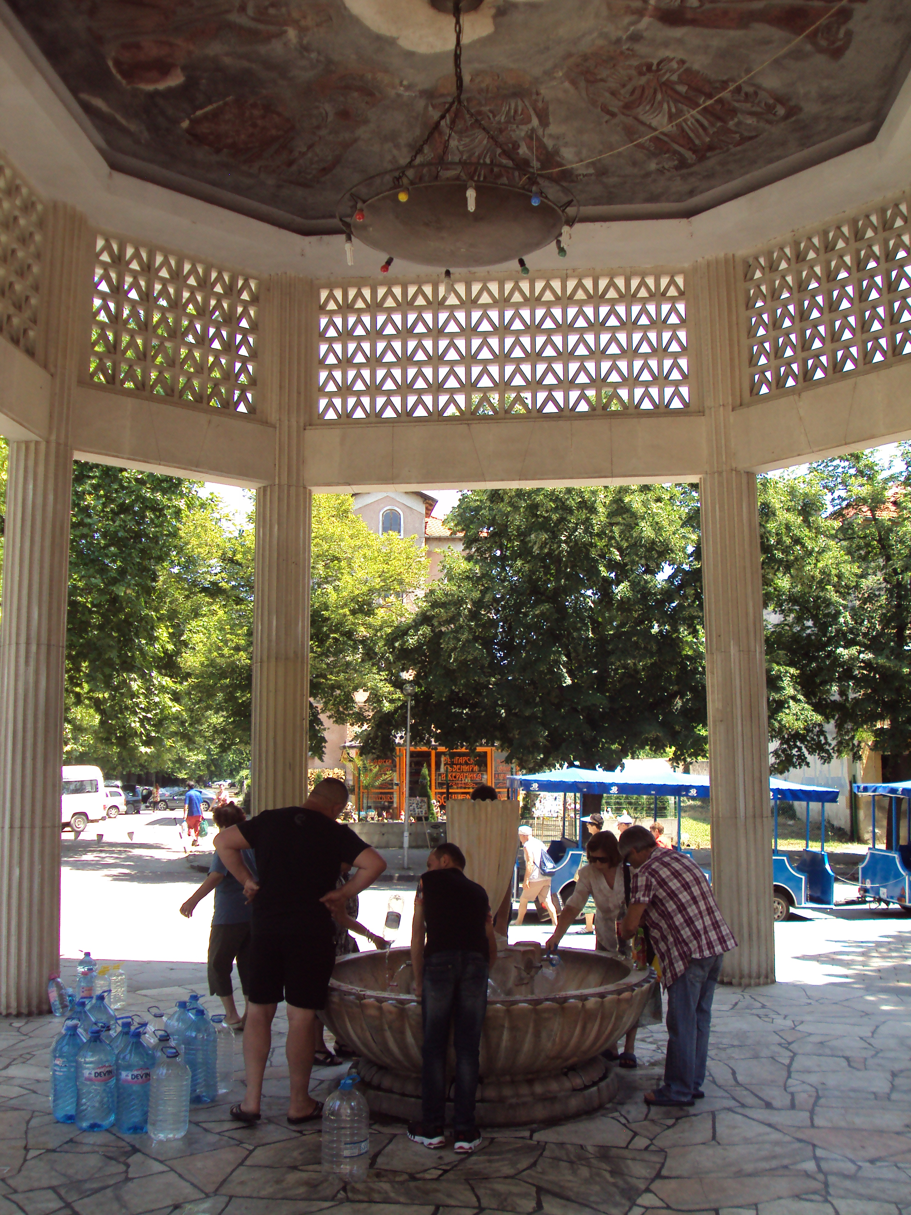 Spring Momina salza in Hisarya, Bulgaria